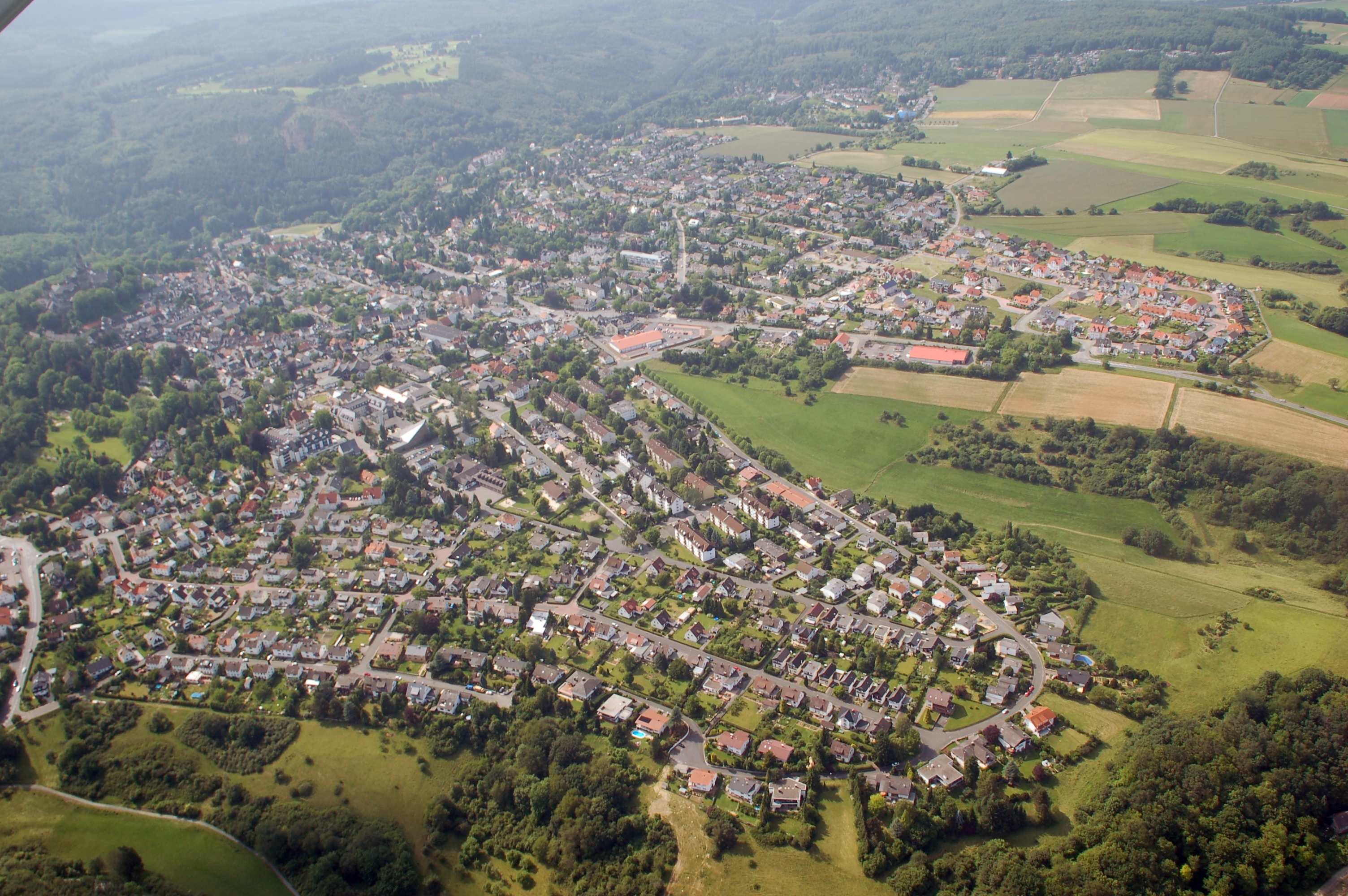 Aerial photograph of Braunfels, Hessen, Germany